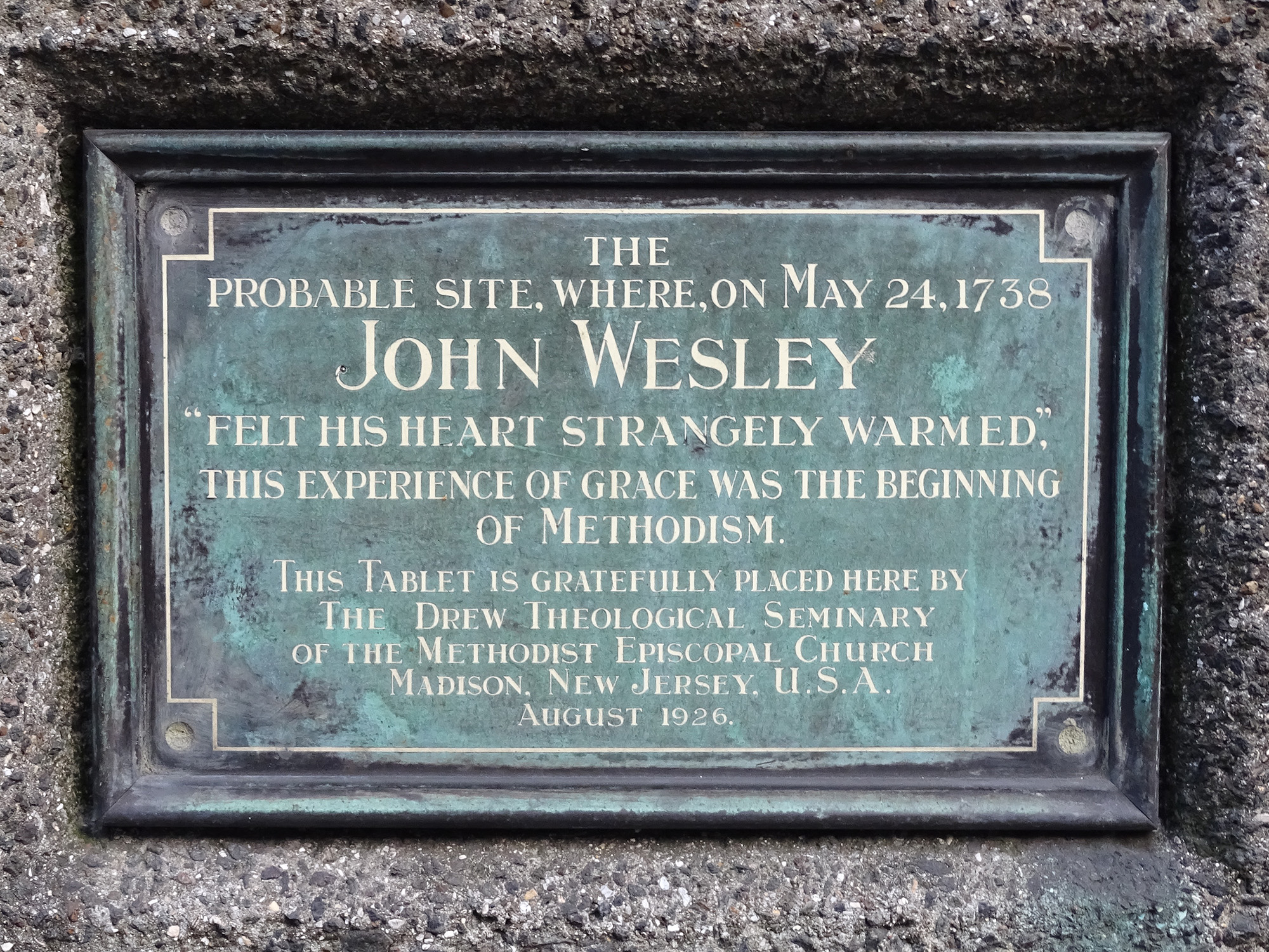 Plaque erected in August 1926 by the Drew Theological Seminary of the Methodist Episcopal Church, Madison New Jersey, U.S.A.. in Aldersgate Street London EC1